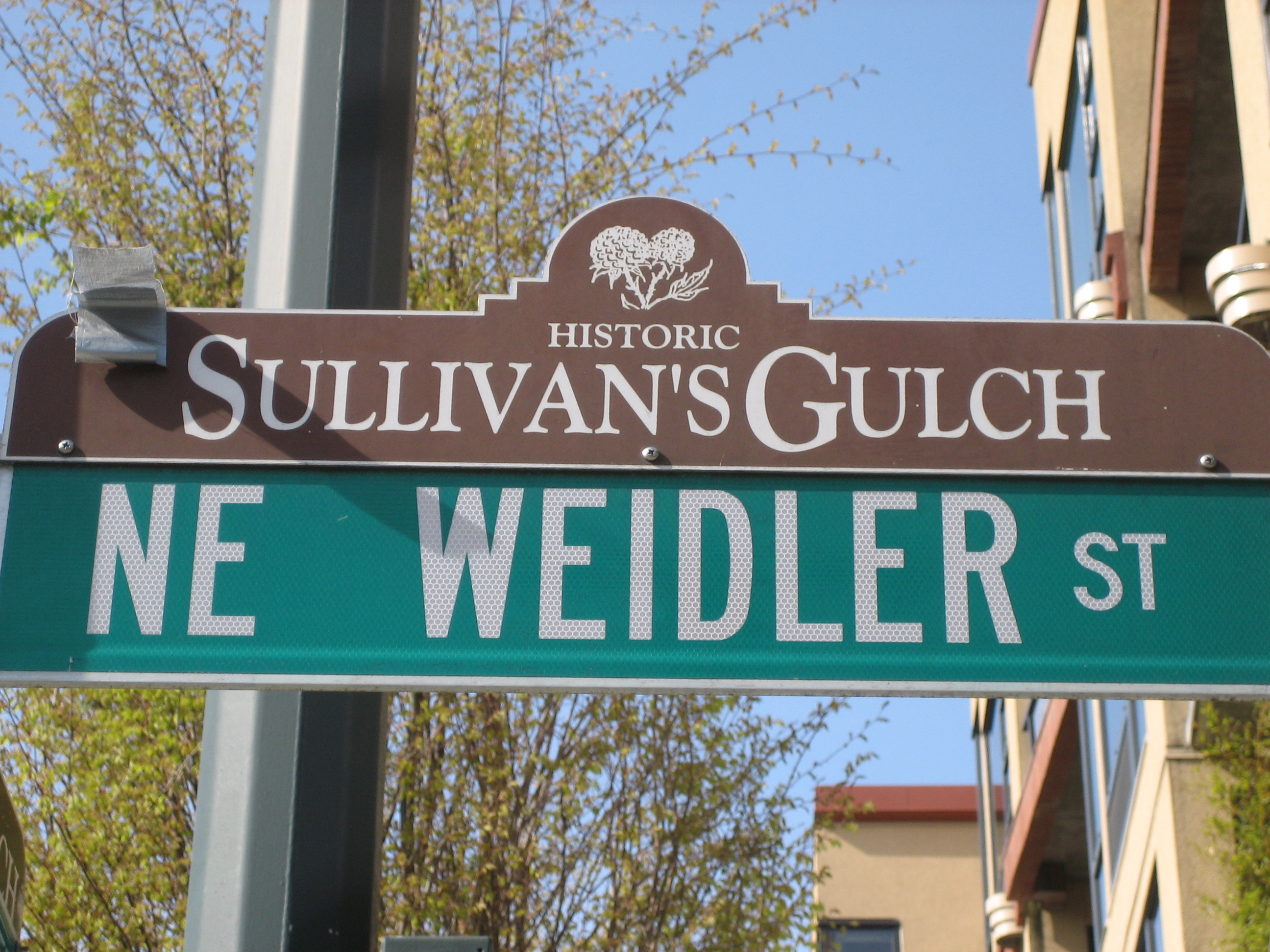 Sullivan's Gulch neighborhood street sign topper, Portland, Oregon